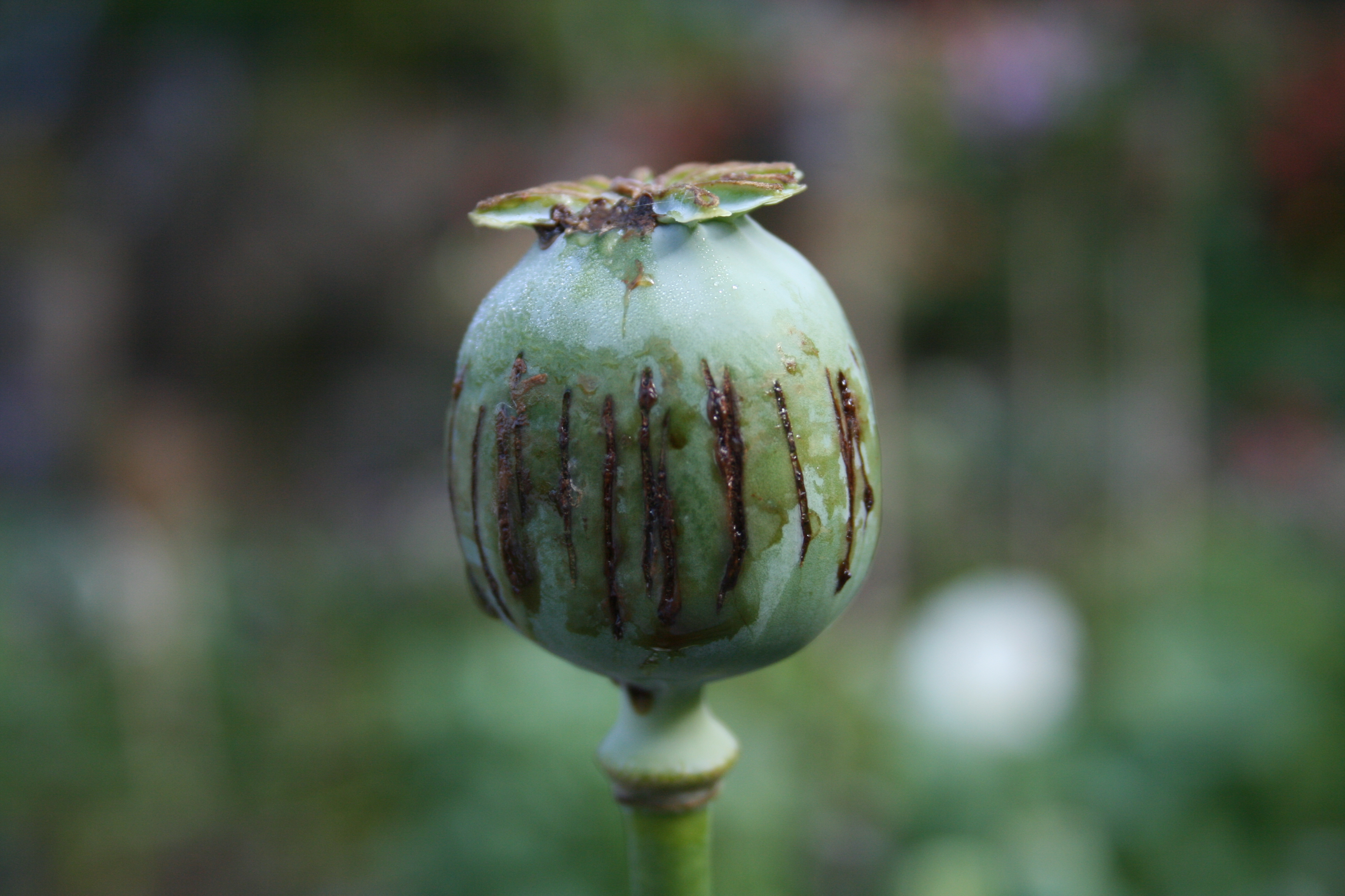 Opium poppy (post harvest)